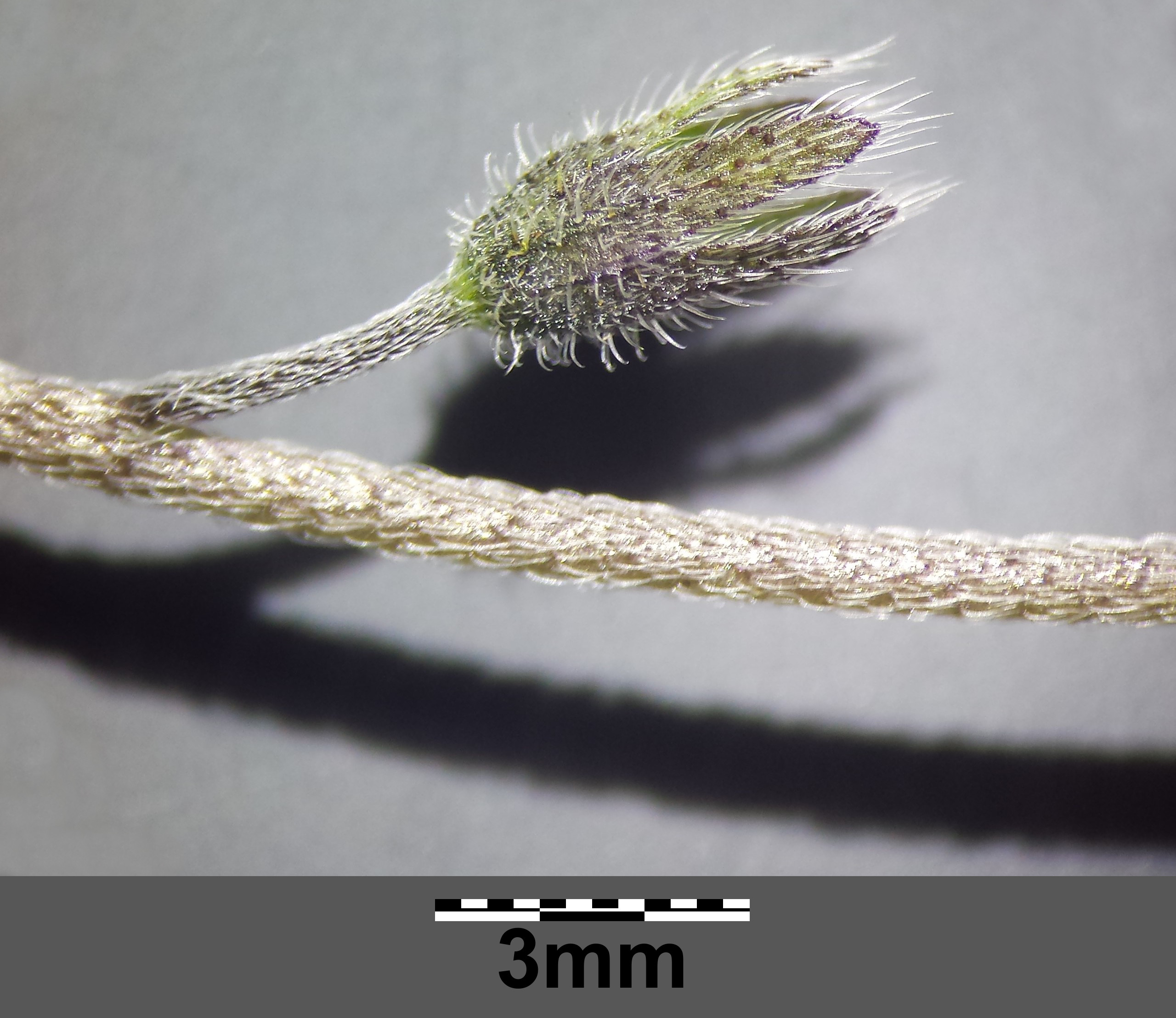 Stipe with flower (corolla missing) Taxonym: Myosotis ramosissima ss Fischer et al. EfÖLS 2008 ISBN 978-3-85474-187-9 Location: Neue Donau, Vienna-Floridsdorf - ca. 160 m a.s.l. Habitat: dry meadows